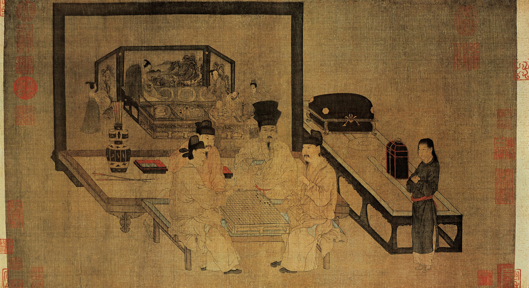 Zhou Wenjiu. Go players. Palace Museum, Beijing.